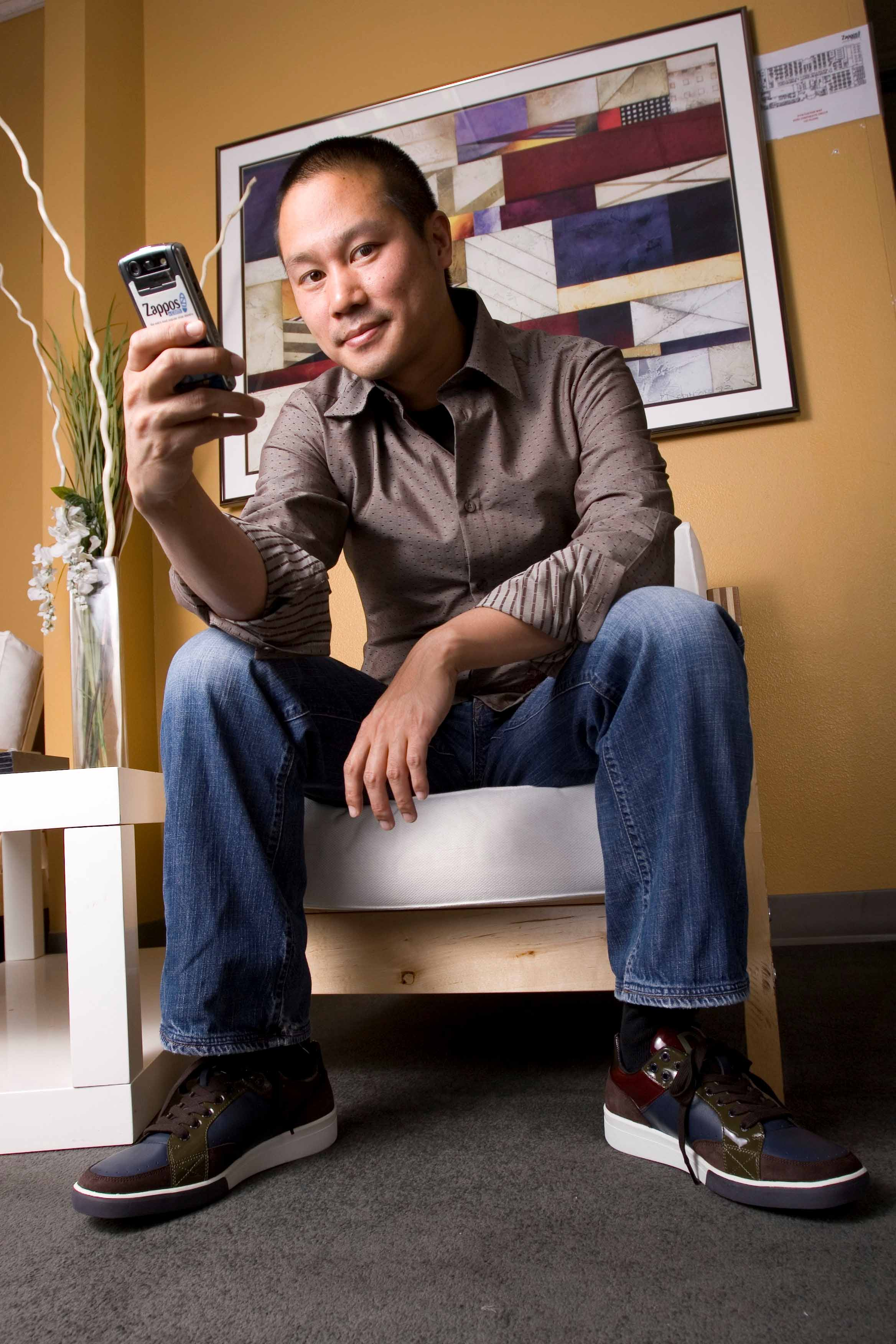 This is a picture of Tony Hsieh, CEO of Zappos.